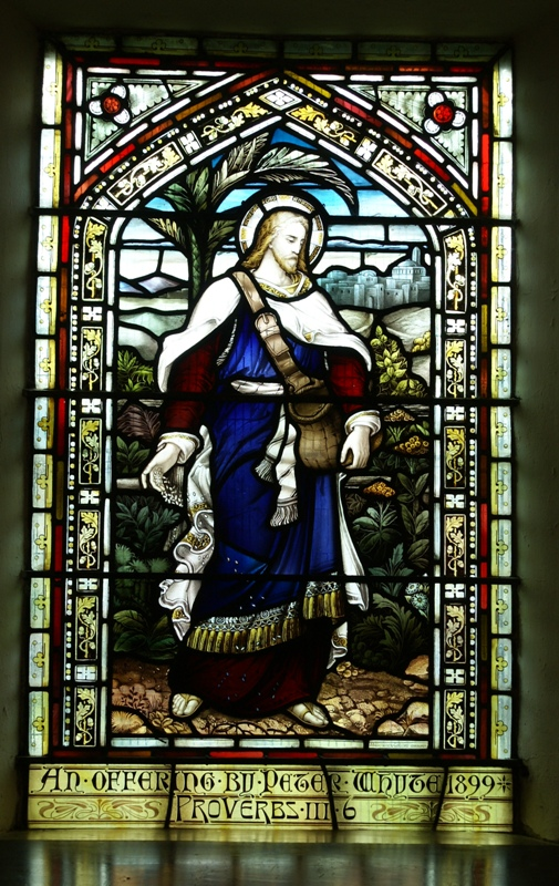 St Serf's Church, Dunning, Perth and Kinross, Scotland - stained glass by Ballantine & Gardiner, 1899. The Sower.